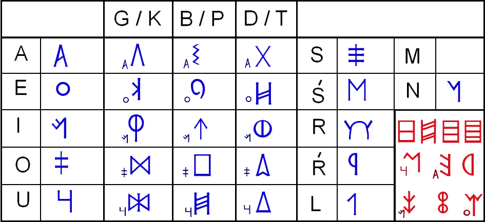 A tartessian (southwestern or southlusitanian) signary. Rodríguez Ramos 2000